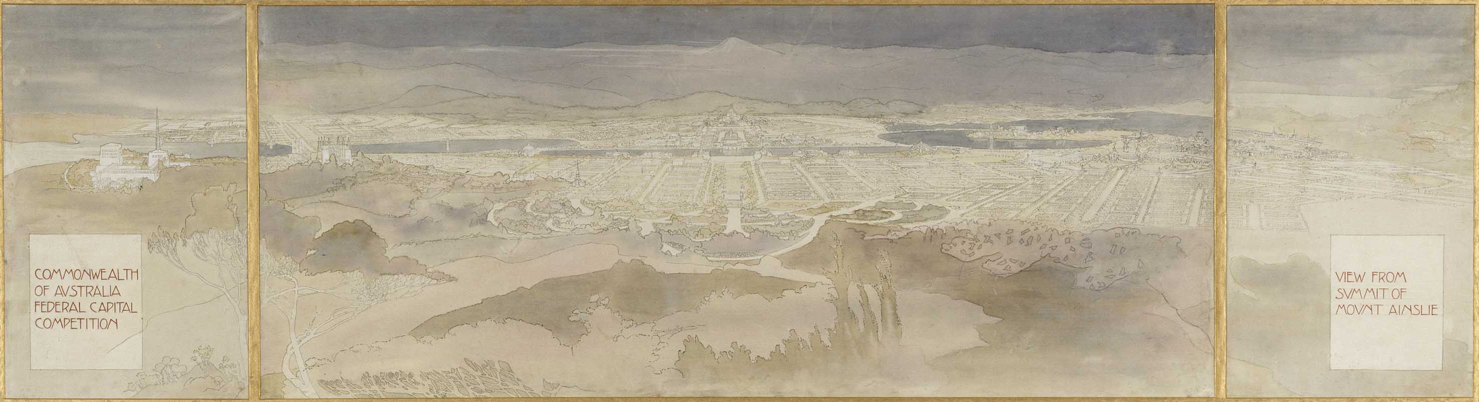 Canberra plan submitted to the Canberra design competition by Walter Burley Griffin "View from the summit of Mount Ainslie".